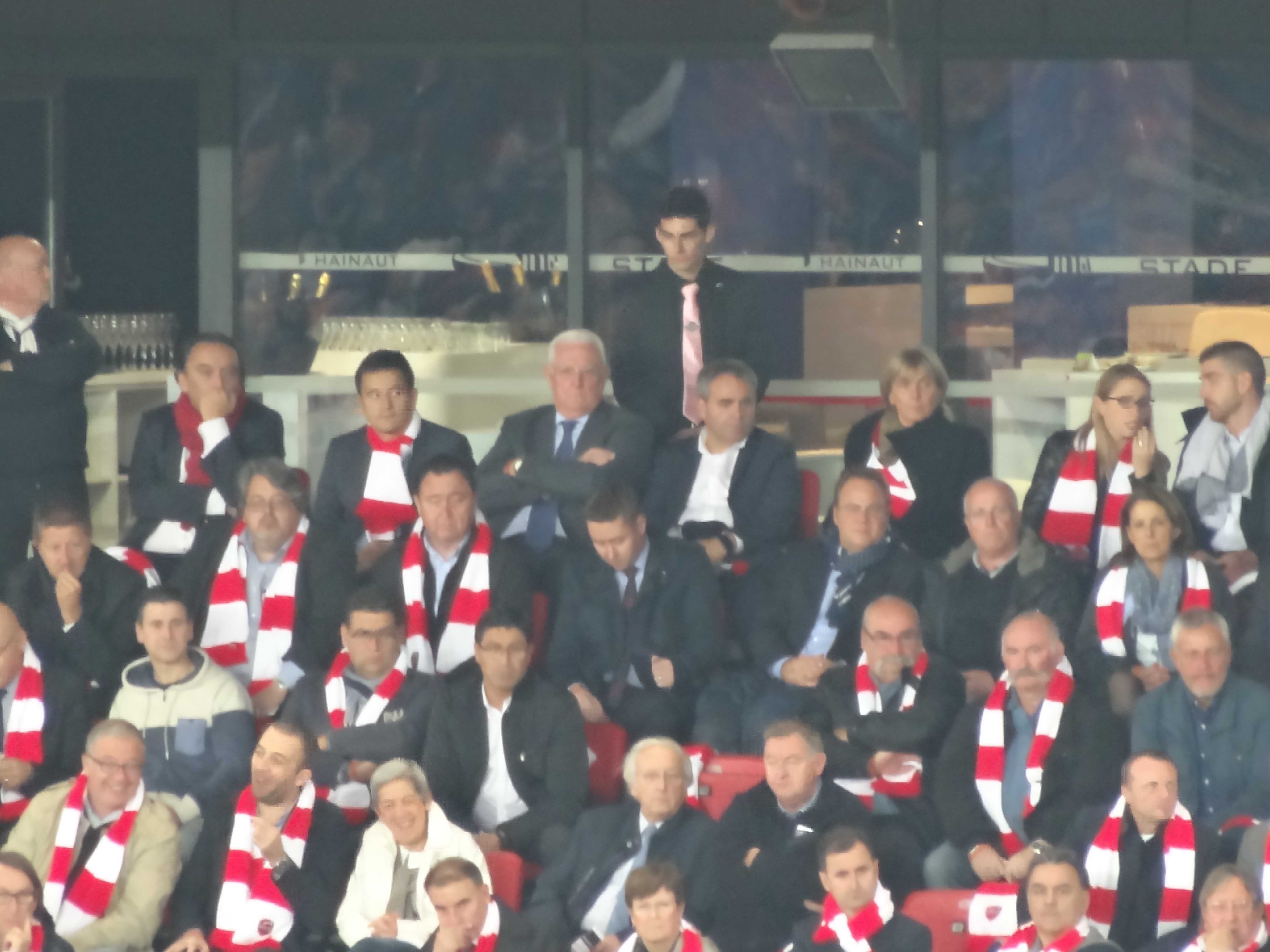 politicians in a VIP zone in Valenciennes